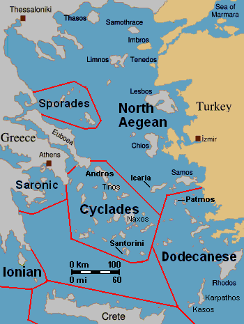 Island groups of the Aegean Sea, including the Cyclades, Dodecanese, and North Aegean Islands. The width is compressed to 350px to magnify names 20%, some islands are labeled, and Turkey is shown in yellow-beige for contrast.